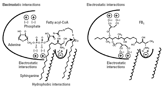 Figure 5: Proposed mechanism of action of ceramide synthase inhibition by FB1; FB1 mimics regions of the sphingoid base and the fatty acyl-CoA substrates. (Merrill et al., 2001)